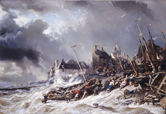 Tempest in front of Saint-Malo (Tempête devant Saint-Malo)